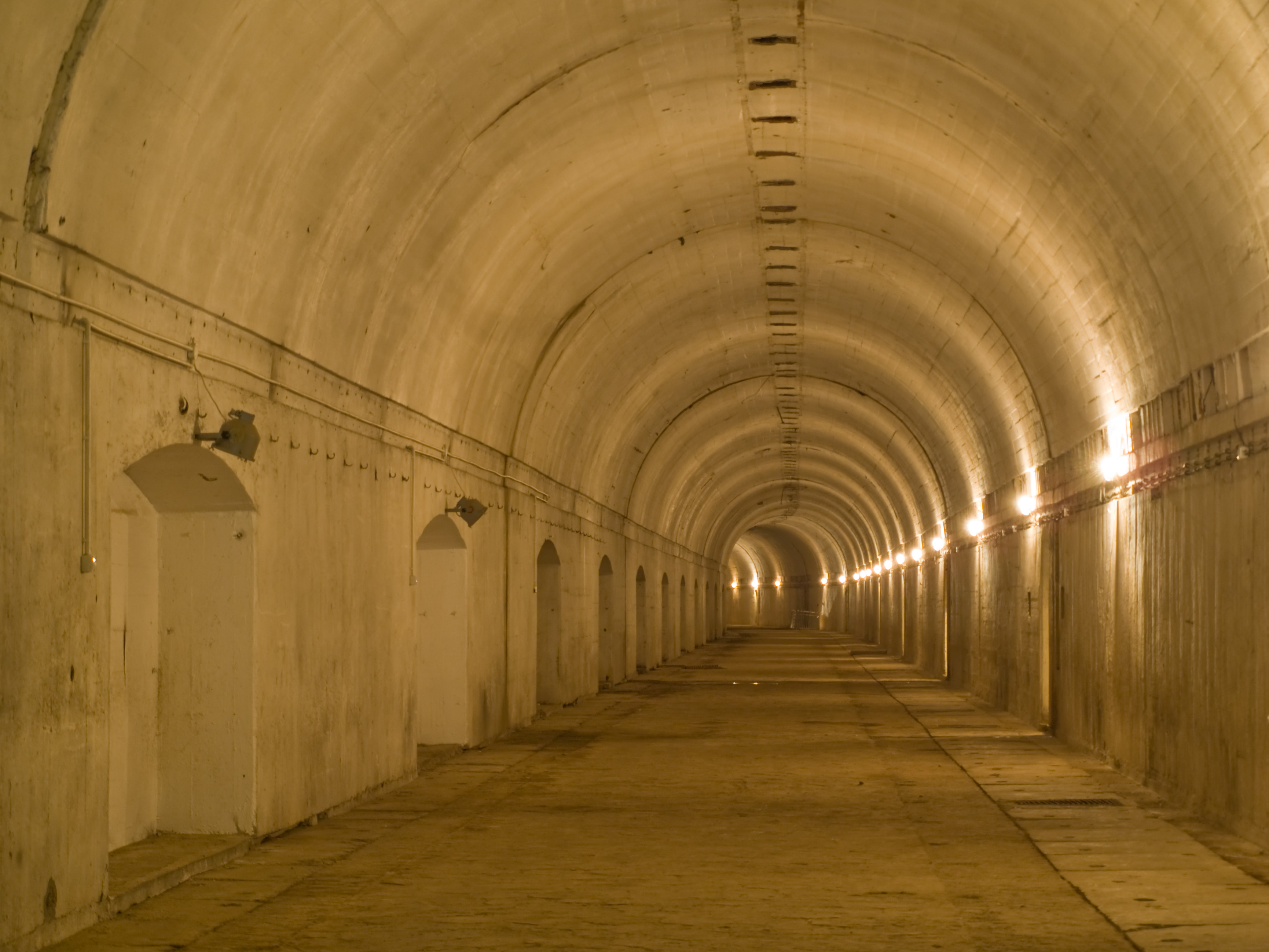 Military tunnel, Stępina, Subcarpathian Voivodeship